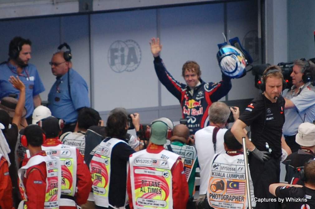 Sebastian Vettel after clocking No.1 in the Qualifying - 2011 Malaysian Grand Prix.